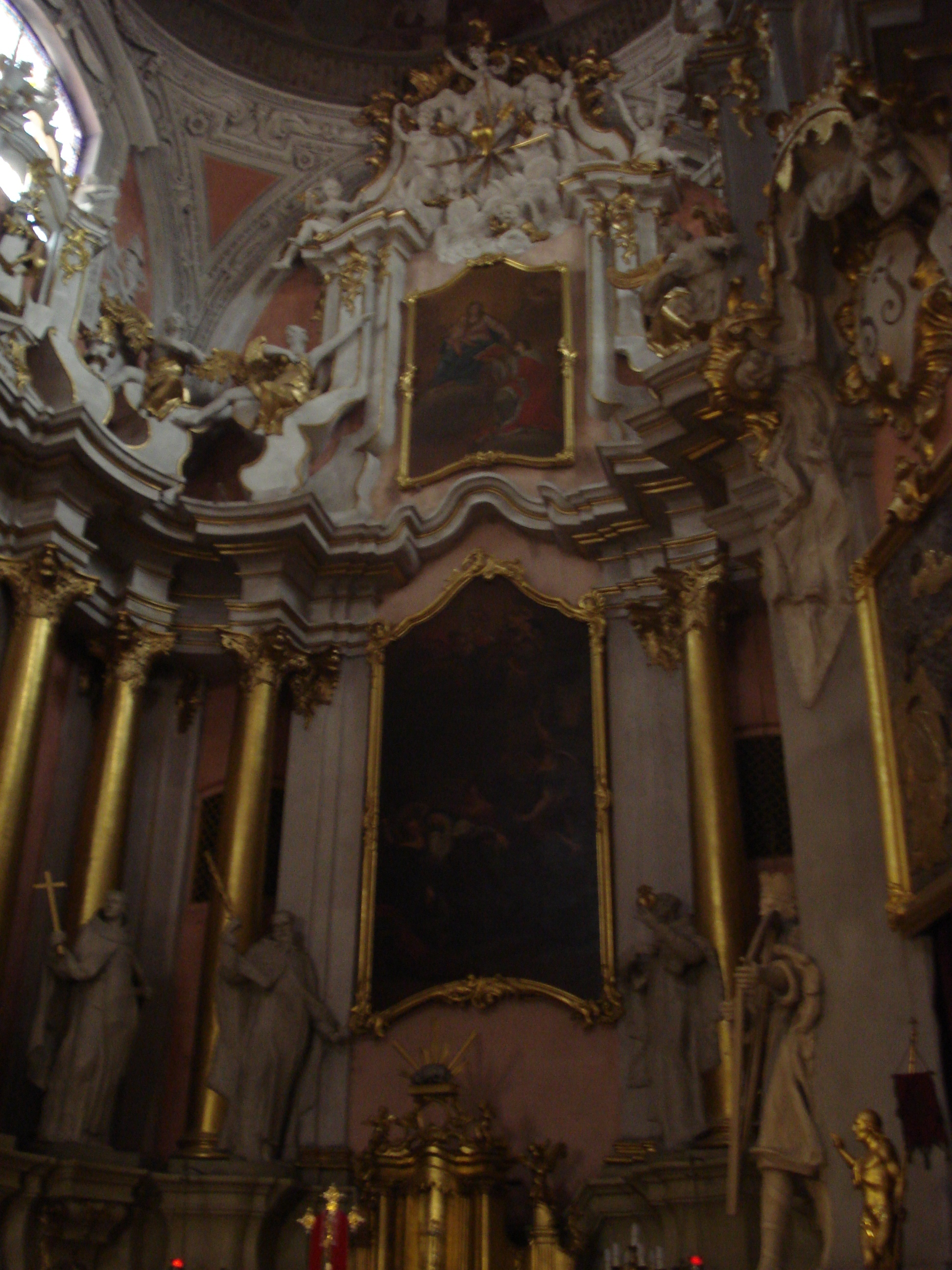 Main altar in the Church of the St Teresa in Vilnius (Aušros Vartų g. 14)